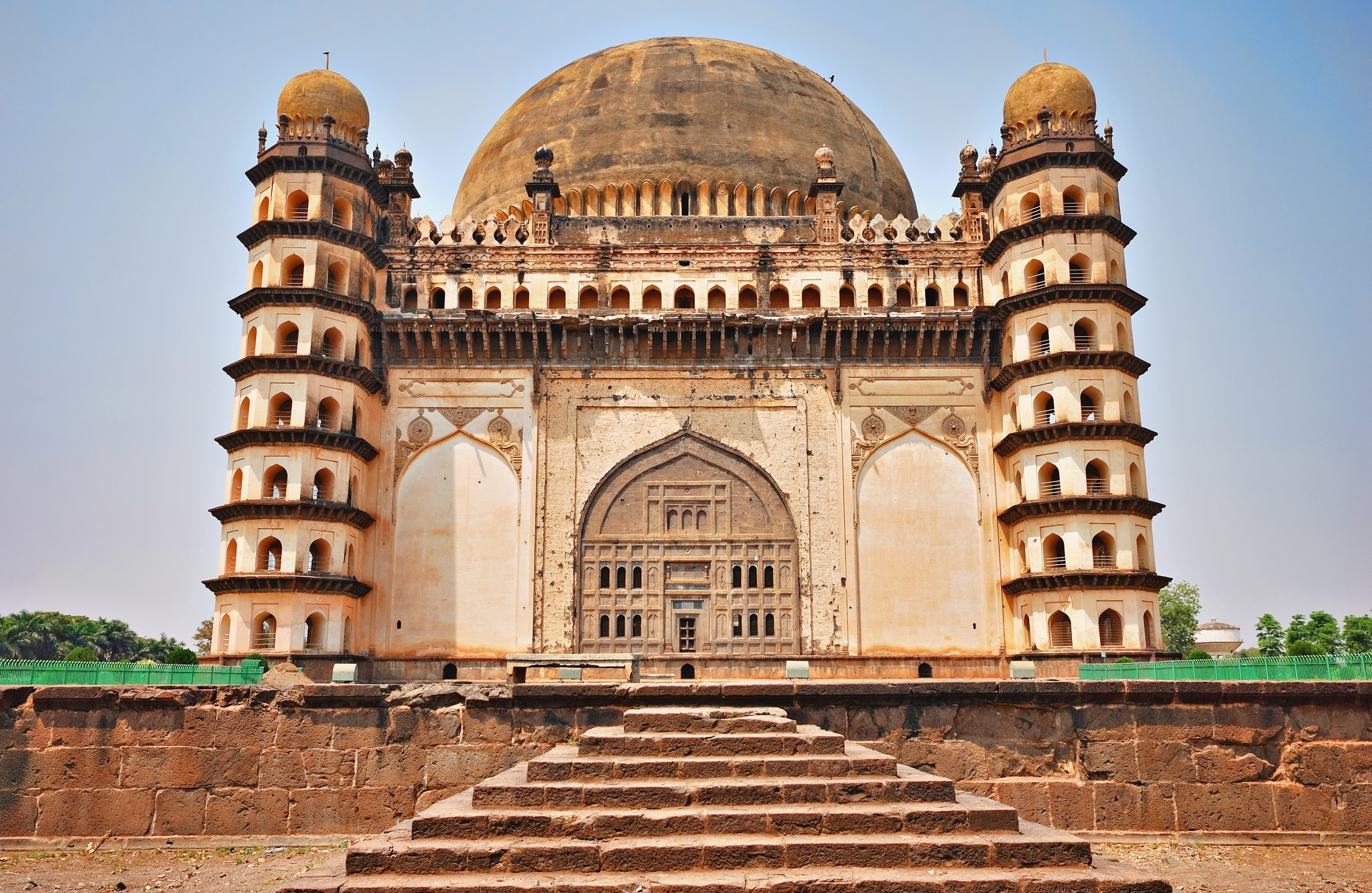 Gol Gumbaz is the mausoleum of Muhammad Adil Shah (1627 -56), the seventh ruler of the Adil Shahi dynasty. A fine specimen of Adil Shahi architecture, this mammoth tomb is a dominant landmark of Bijapur. The construction of the Gol Gumbaz was completed in 1659, after 20 years of meticulous craftsmanship. The chief attraction of the mausoleum is its central dome, which is second in size only to the dome of St Peter's Basilica in Rome and stands unsupported by any pillars. Another astonishing facet of the Golgumbaz is its whispering gallery, which is an acoustic marvel. The gallery has been designed in such a way that the tick of a watch or the rustle of paper can be heard across a distance of 37m and the faintest sound is echoed eleven times over. The tombs of Sultan Adil Shah, his two wives, his mistress Ramba, his daughter and grandson are located under the central dome. The octagonal turrets which project at an angle and the huge bracketed cornic below the parapet, are important features of this monument. From the gallery around the dome, which can be reached by climbing up the turret passages, one can have a fabulous view of the town.